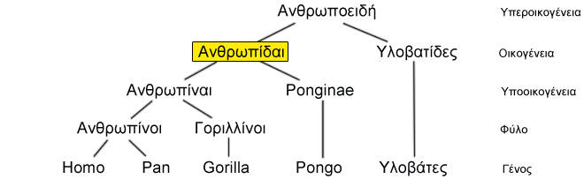 Hominidae family tree